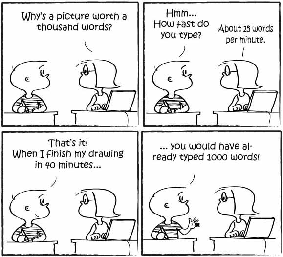 This is a modification of File:20090211 thousand words-01.jpg, which I digitally cropped, to remove the title and the copyright notice.